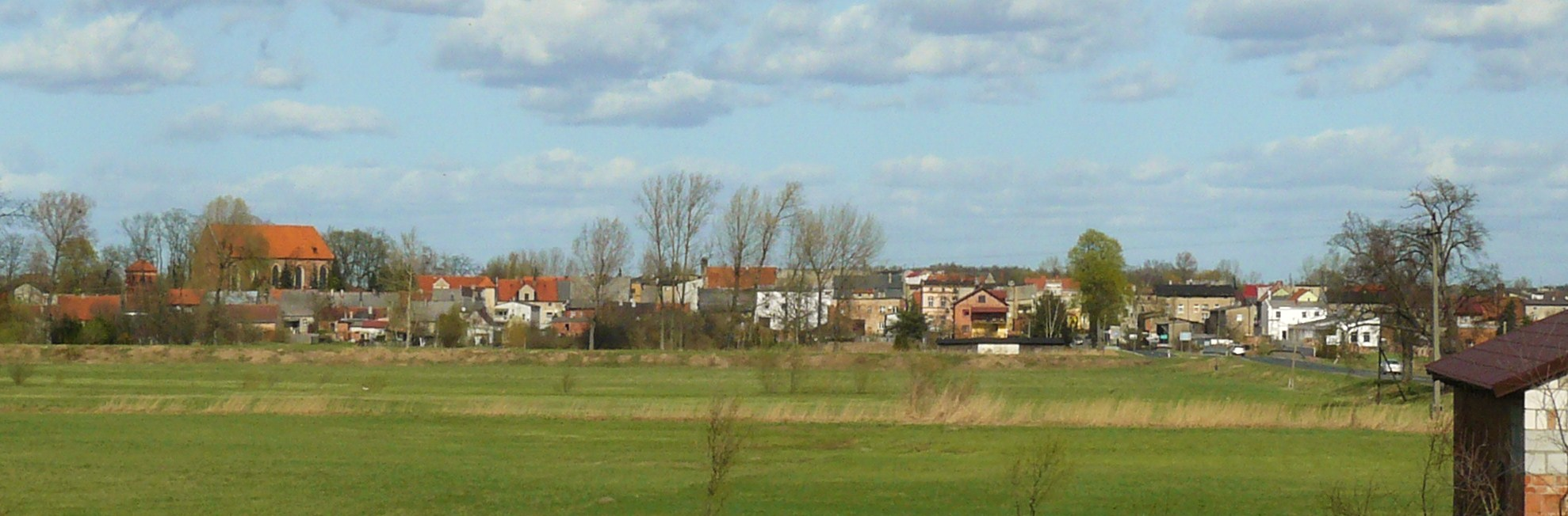 Krzywin, PL.